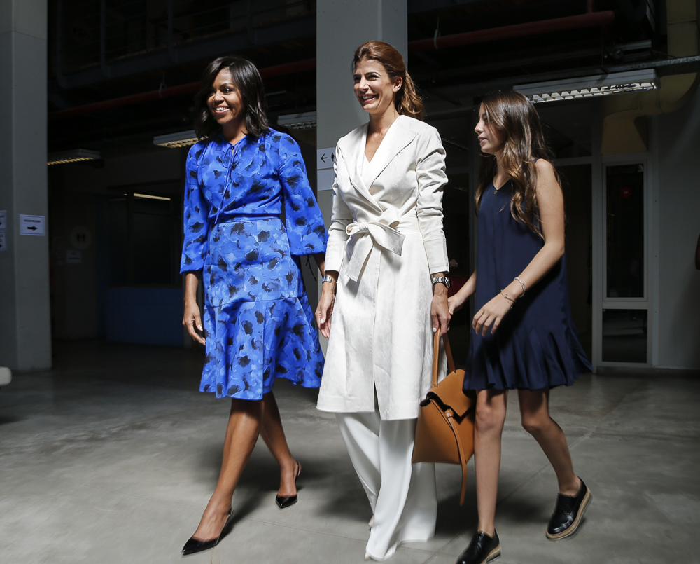 The First Lady of the United States, Michelle Obama, with his argentine counterpart, Juliana Awada.